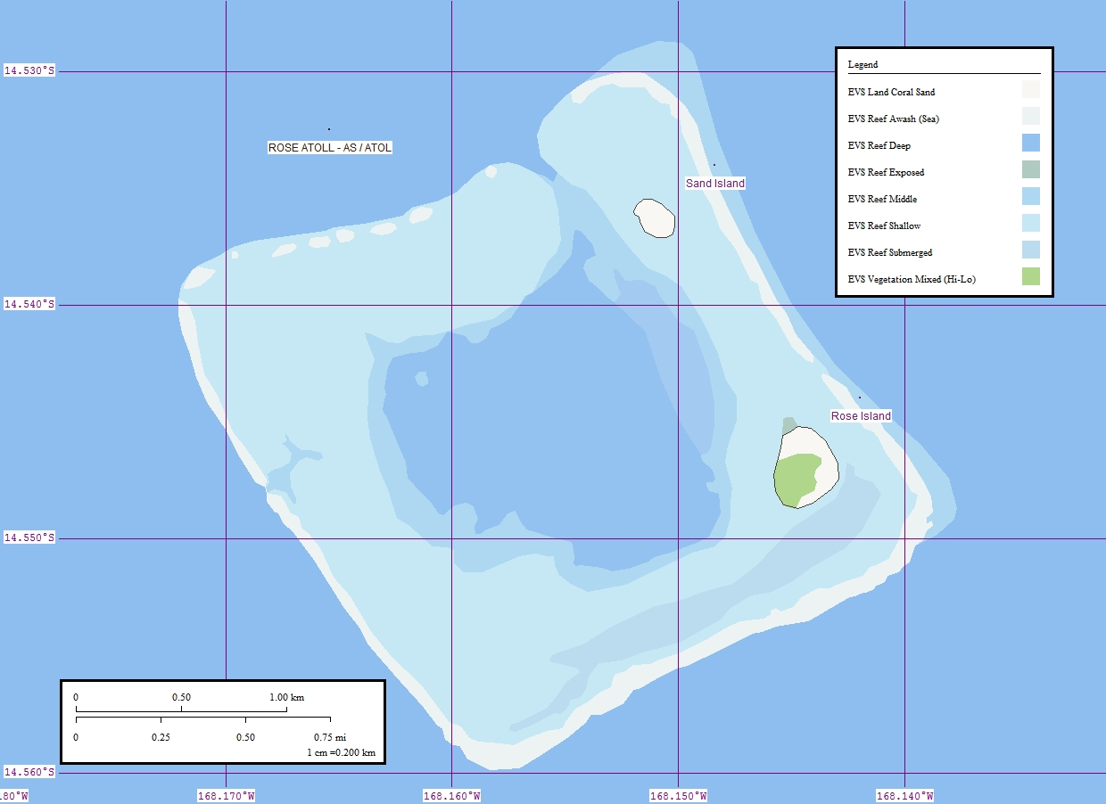 Map of Rose Atoll, American Samoa